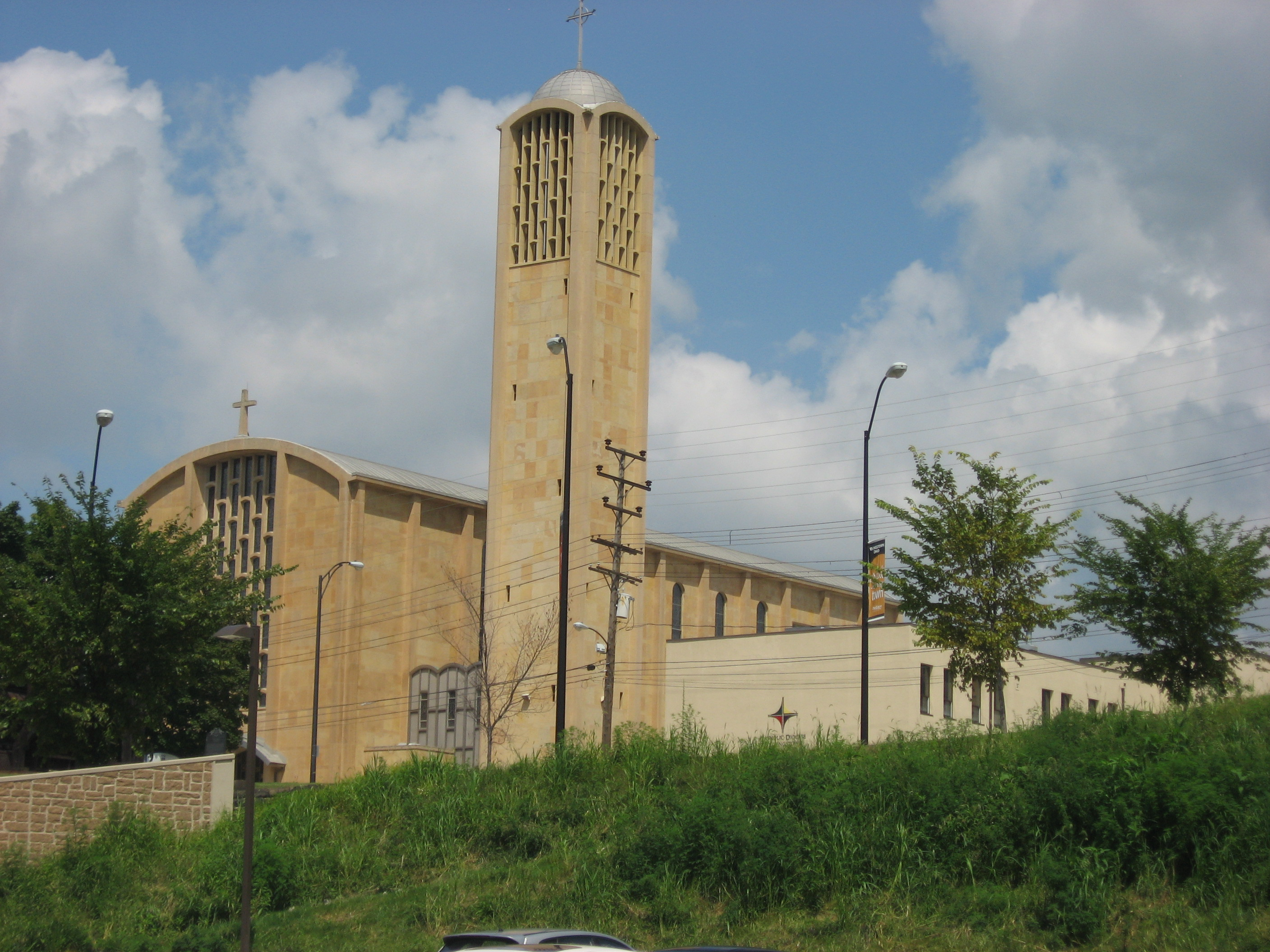 View from the southeast of St. Columba's Cathedral, located on the northeastern corner of the junction of Elm and Wood Streets in Youngstown, Ohio, United States. Completed in 1958, it is the cathedral for the Roman Catholic Diocese of Youngstown.